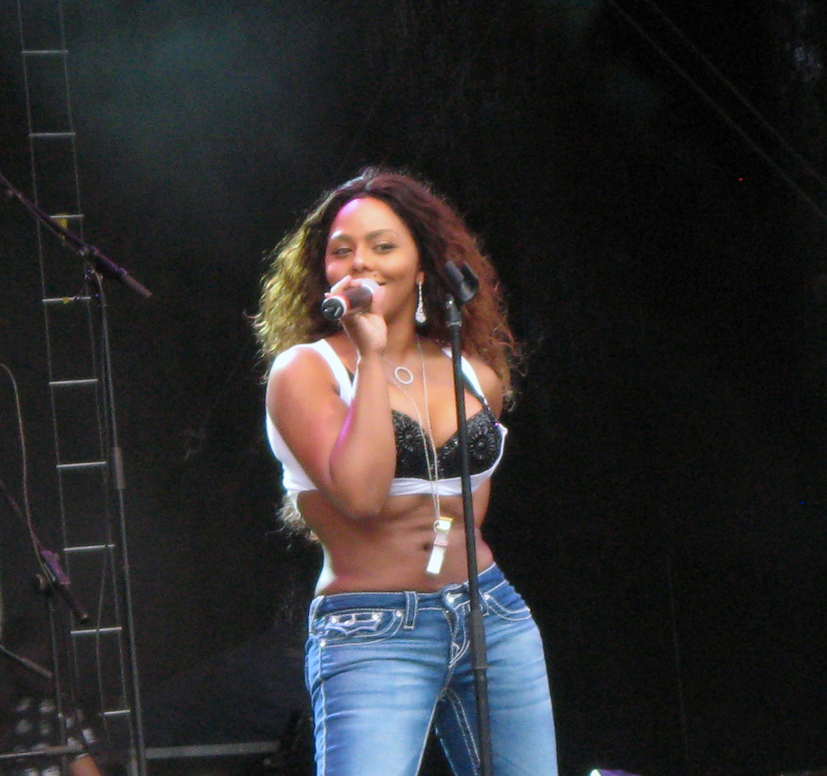 Lil' Kim, Actor, Grammy Award winning, American multi-platinum rapper.